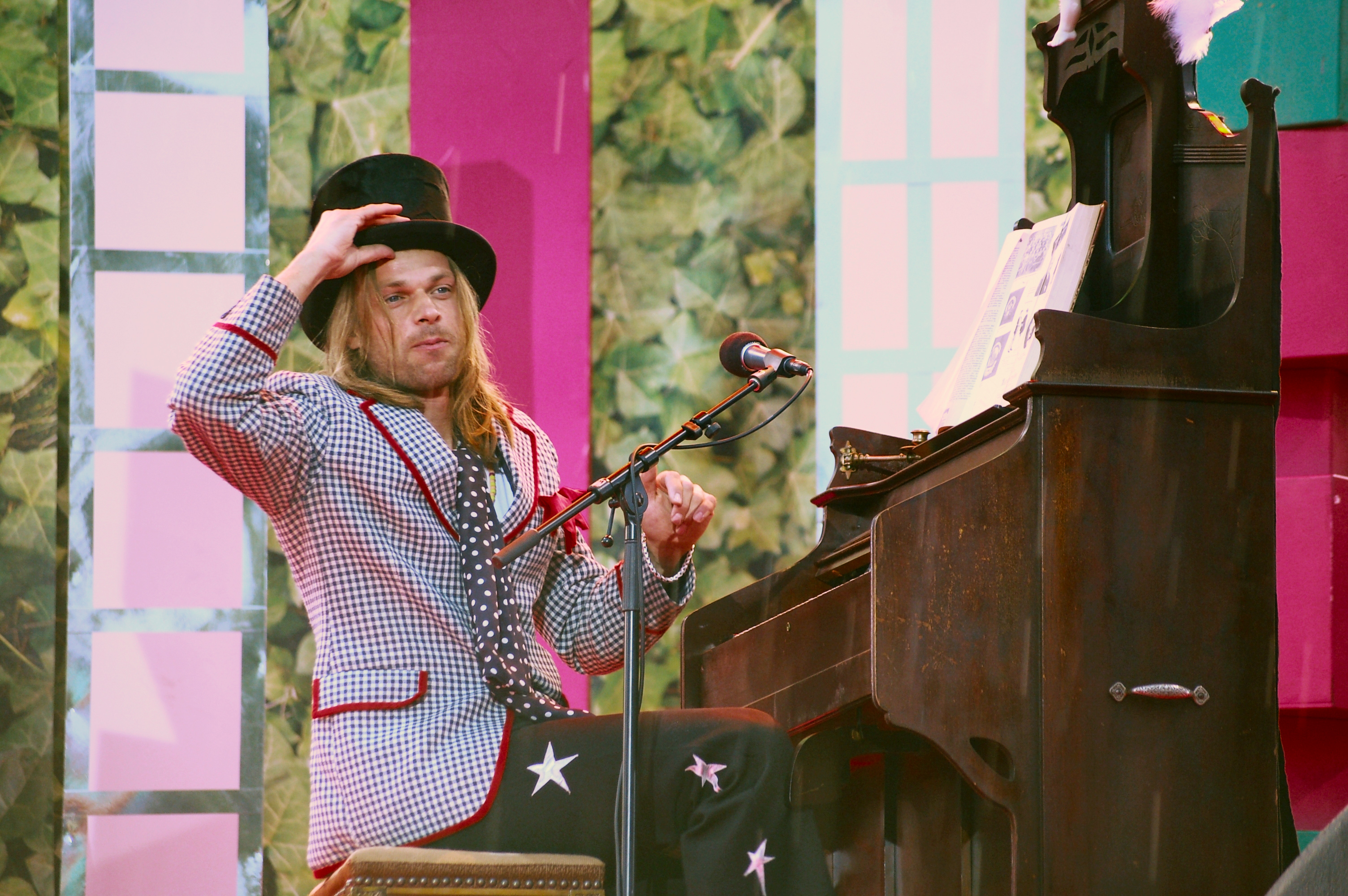 Carl-Einar Häckner at Gröna Lund, Sommarkrysset. 2008